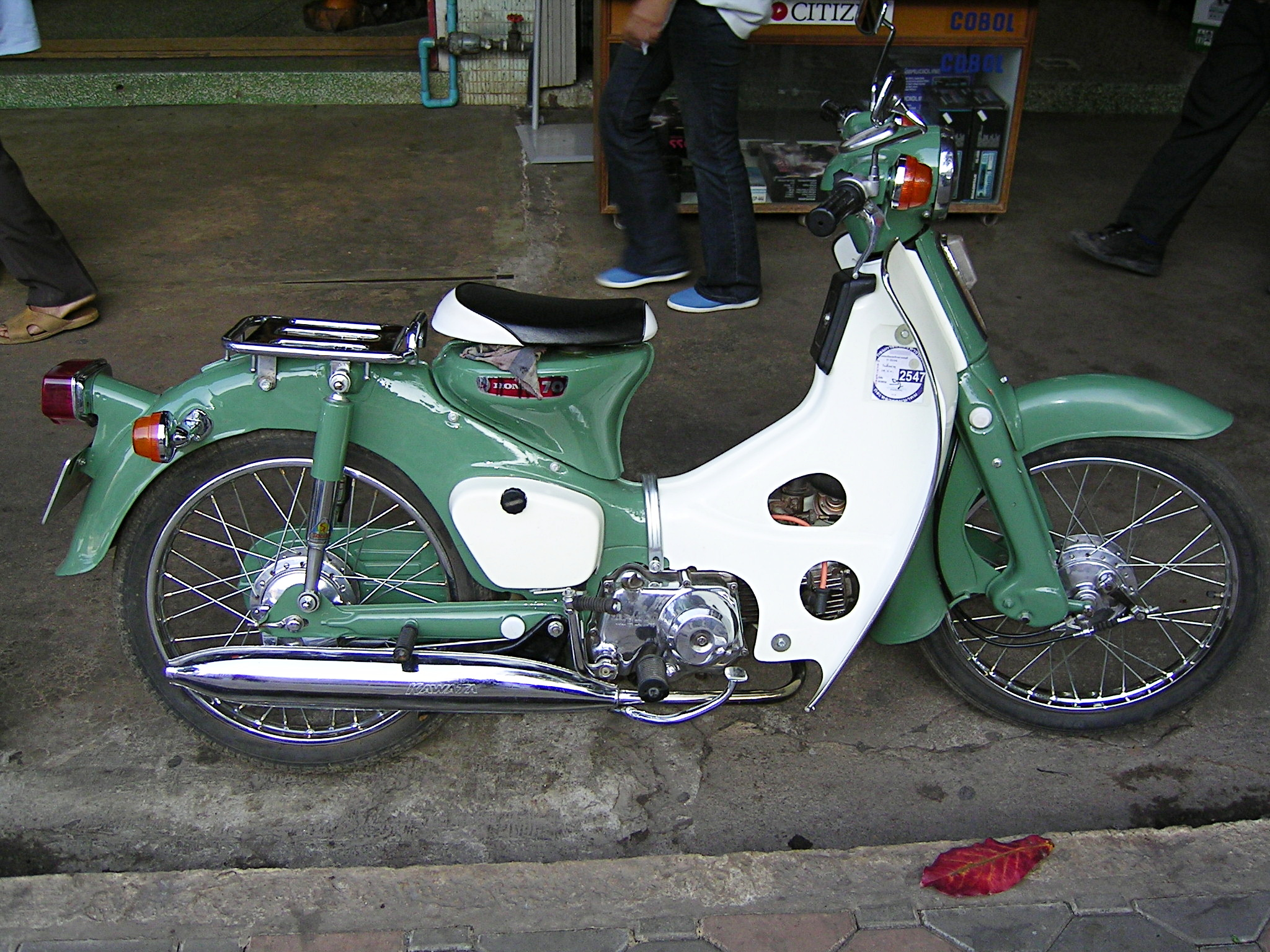 Honda Cub C70 photographed in Trat, Thailand